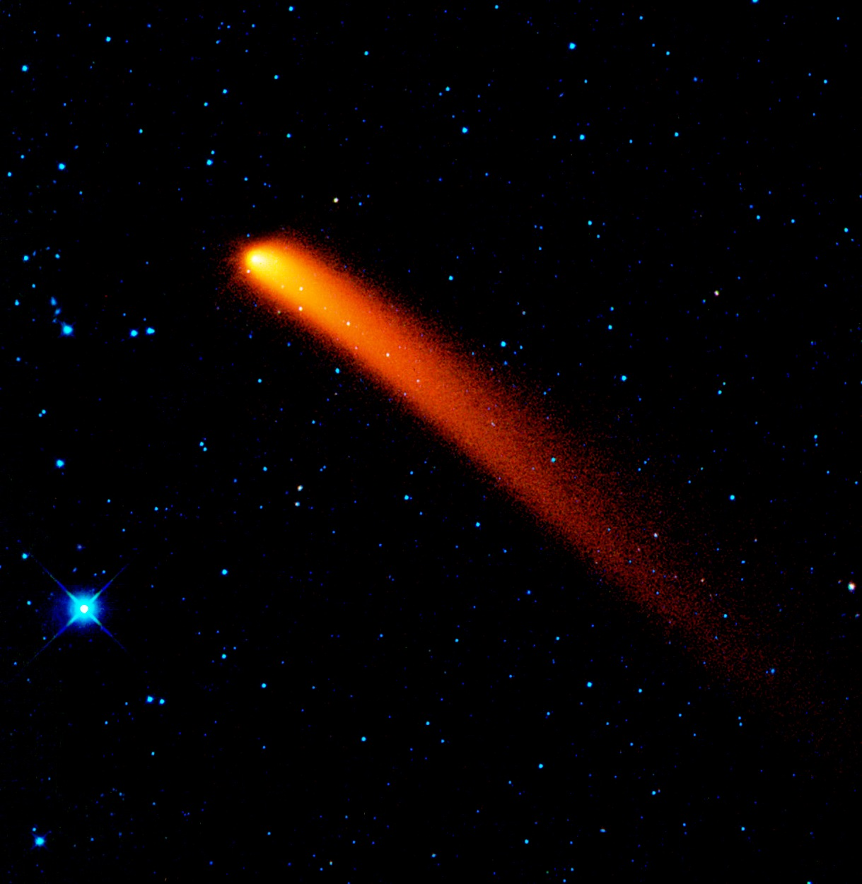 Comet Siding Spring (C/2007 Q3) as imaged in the infrared by the WISE space telescope. The images was taken January 10, 2010 when the comet was 2.5AU from the Sun. Text article